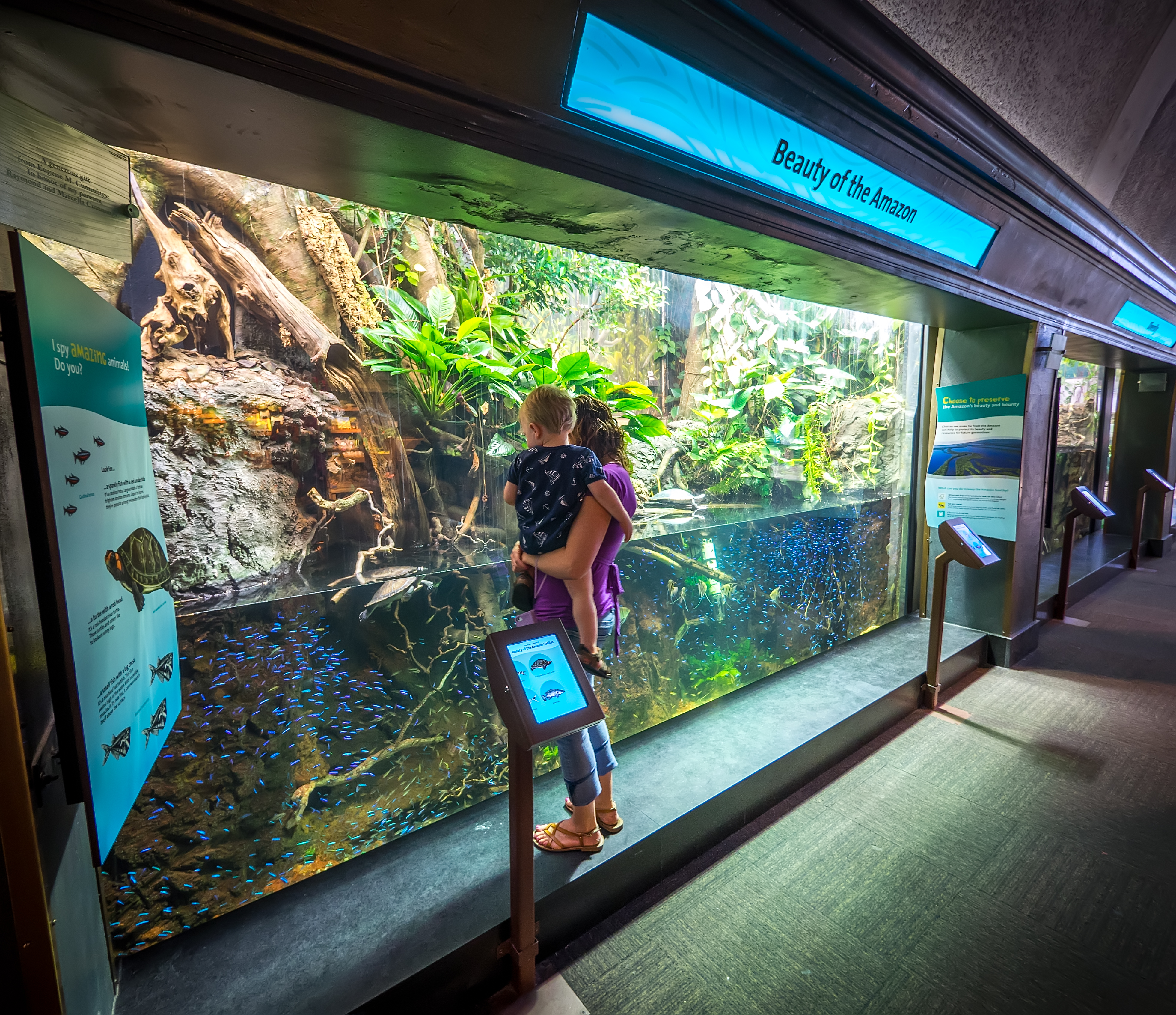 Shedd Display